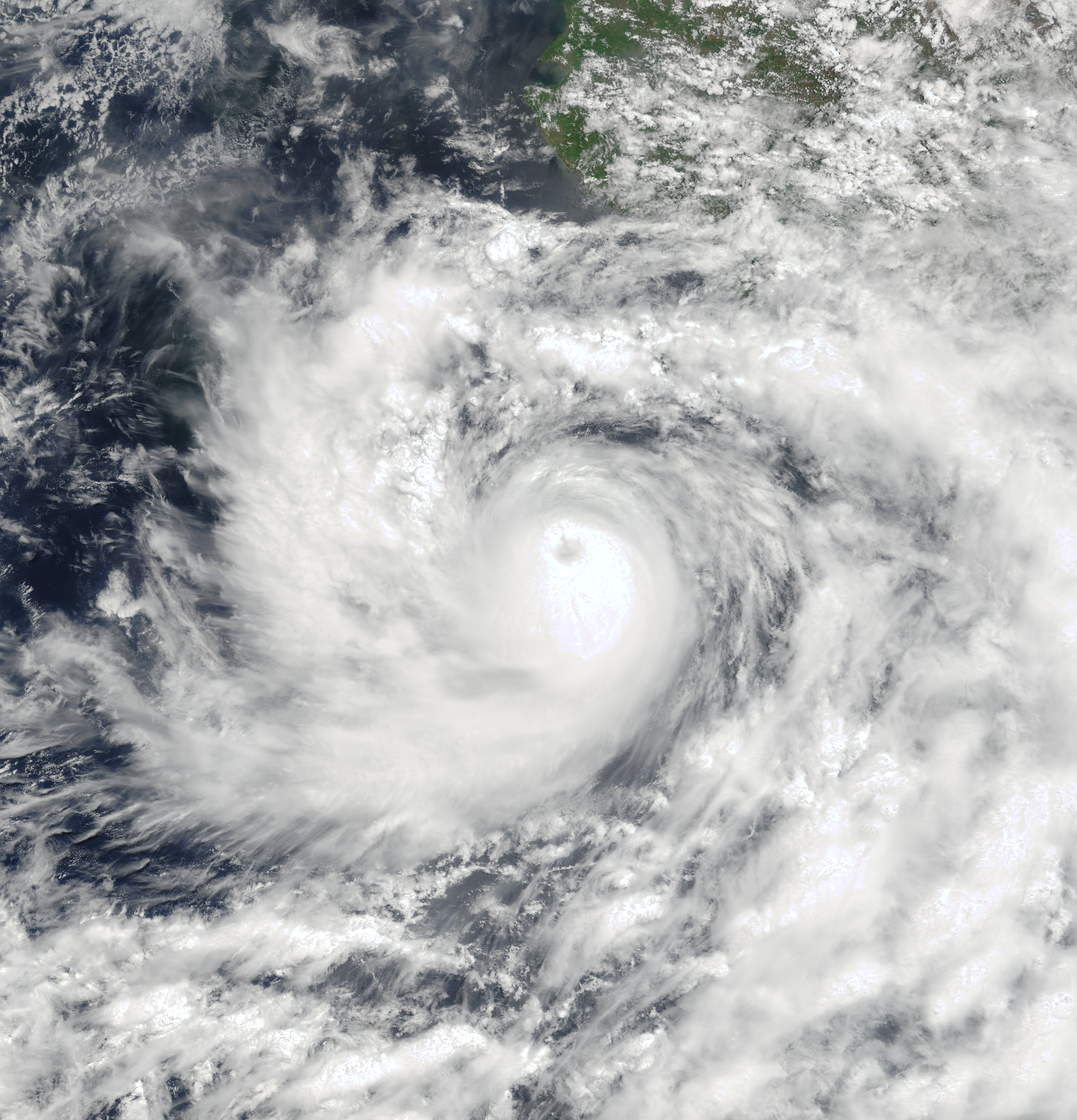 Hurricane Carlotta on June 21, 2000